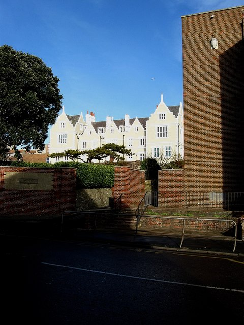 St Mary's Hall An independent day and boarding school for girls considered one of the oldest in the country having been founded in 1836.